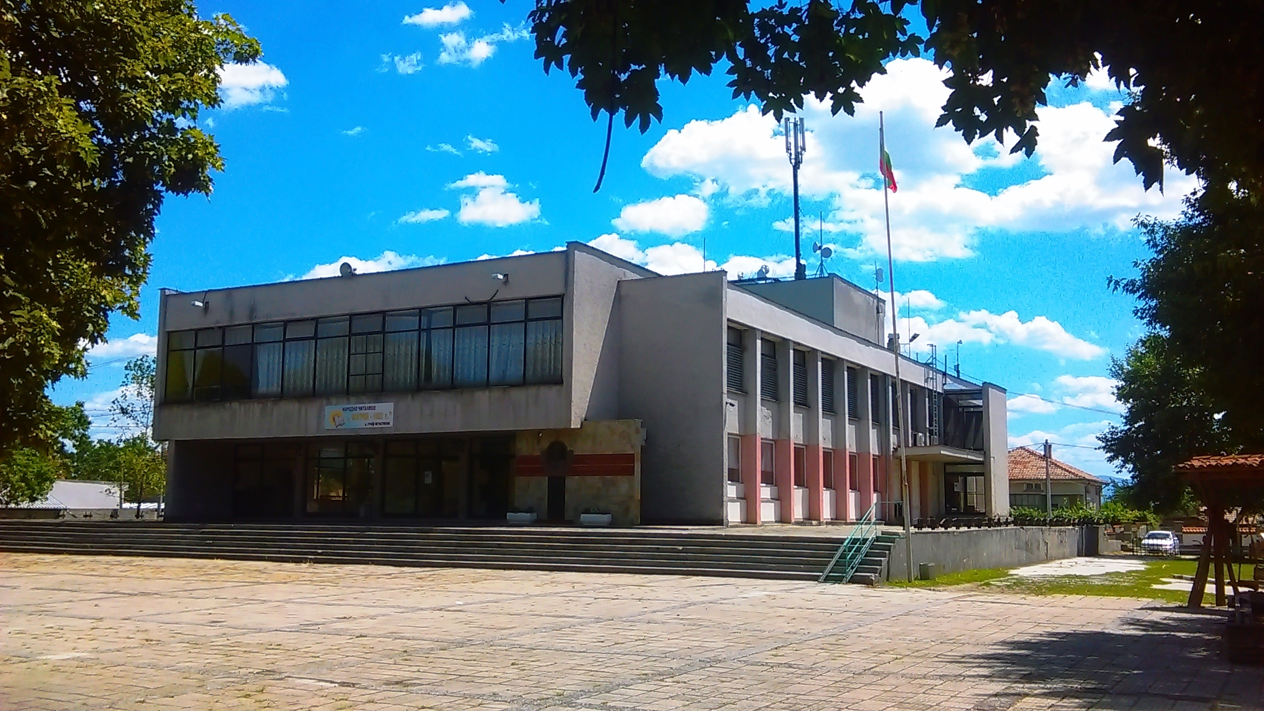 Lycaeum in Graf Ignatievo, Maritsa Municipality, southern Bulgaria.